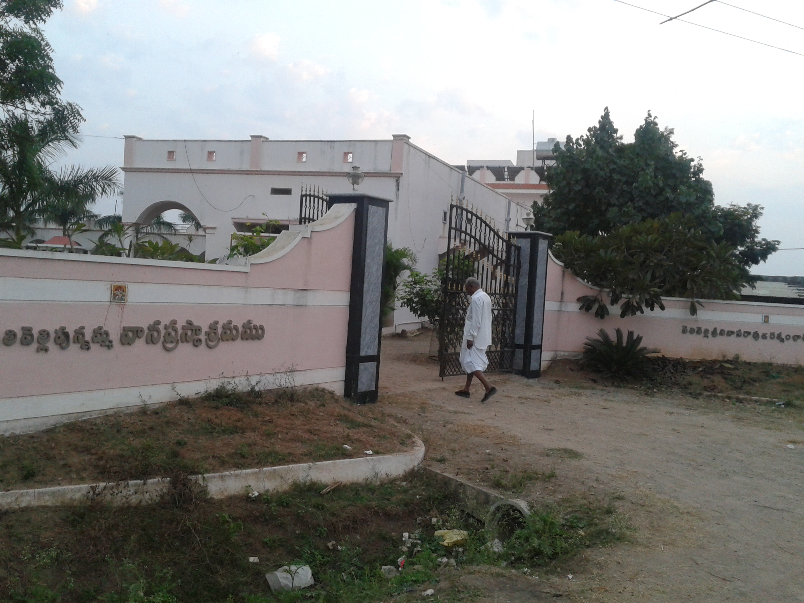 Home for the aged in China kondrupadu village, Prathipadu Mandal, Guntur district